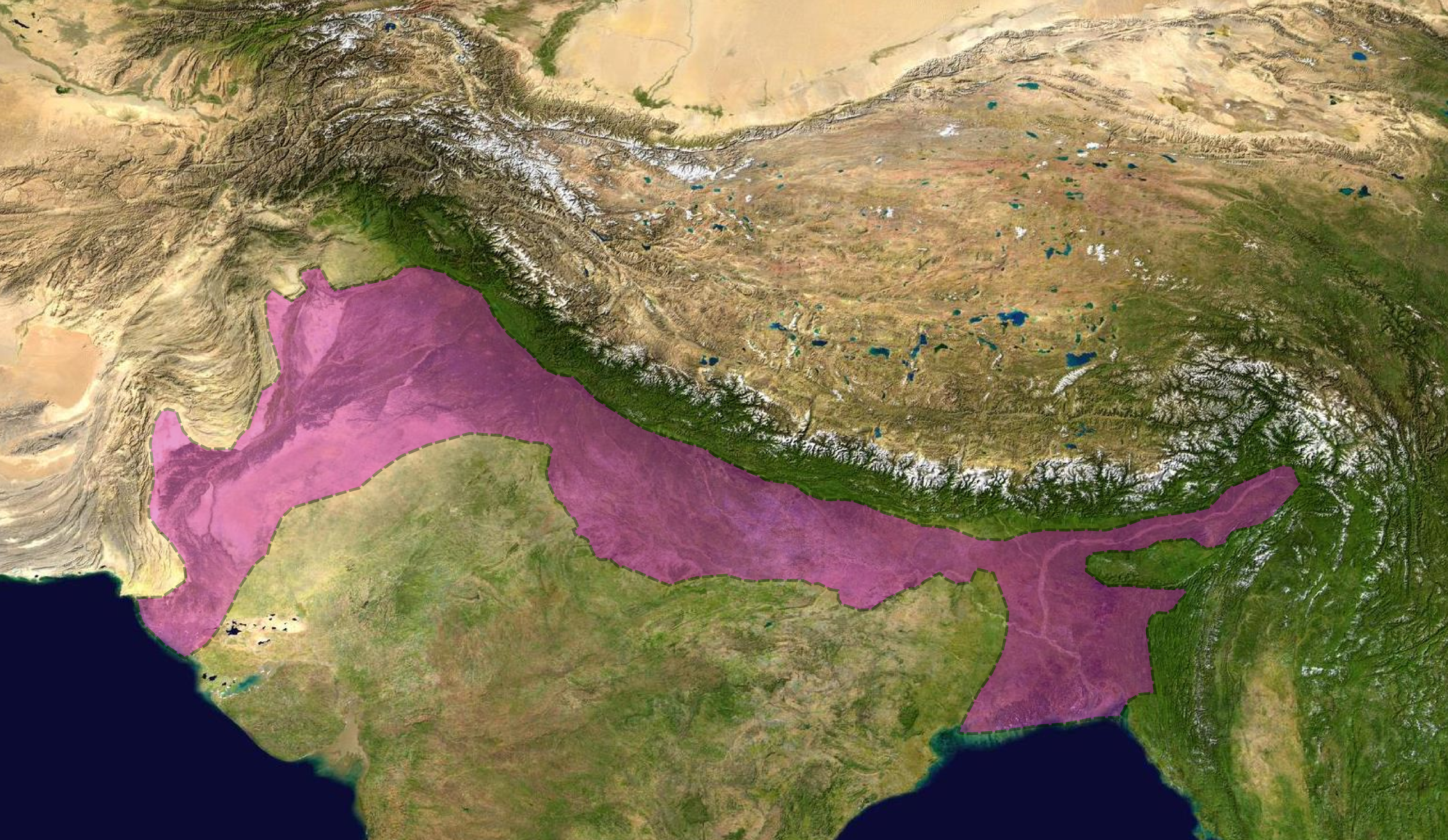 Satellite image of the Himalayas with the location of the Himalayan Foreland Basin highlighted. The satellite image is a cropped version of File:Asia topic image Satellite image.jpg, originally from NASA. The outline of the foreland basin is taken from Figure 1 of Clift & VanLaningham 2010